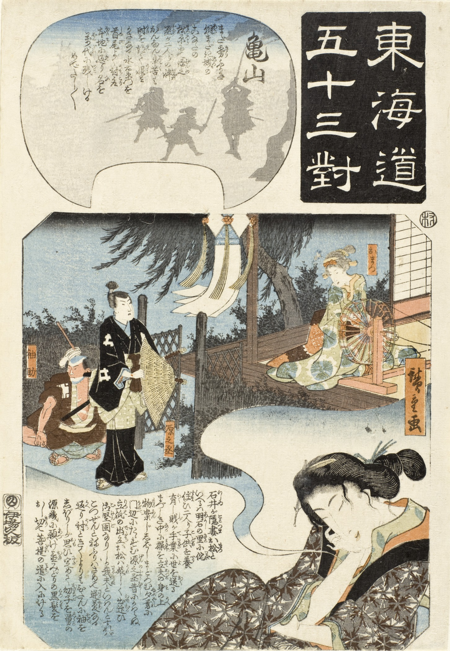 Japan, mid-1840s Series: Matched Pairs of Fifty-three Stations of the Tokaido (Tôkaidô gojûsan tsui), no. 47 Prints; woodcuts Color woodblock print Image: 13 15/16 x 8 7/8 in. (35.4 x 22.54 cm); Sheet: 14 1/8 x 9 13/16 in. (35.88 x 24.92 cm) Gift of Chuck Bowdlear, Ph.D., and John Borozan, M.A. (M.2003.67.1) Japanese Art